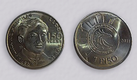 Commemorative coin.